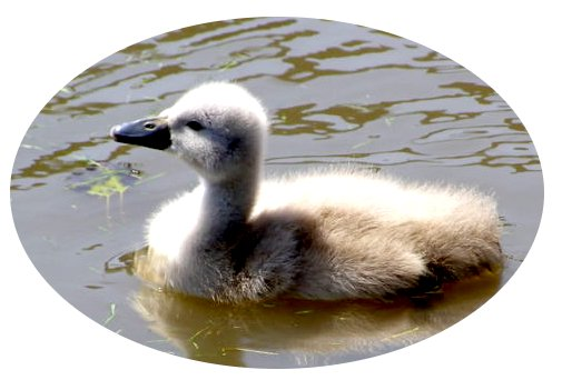 Cygnet (Cygnus olor) at Abbotsbury Swannery, Dorset, England